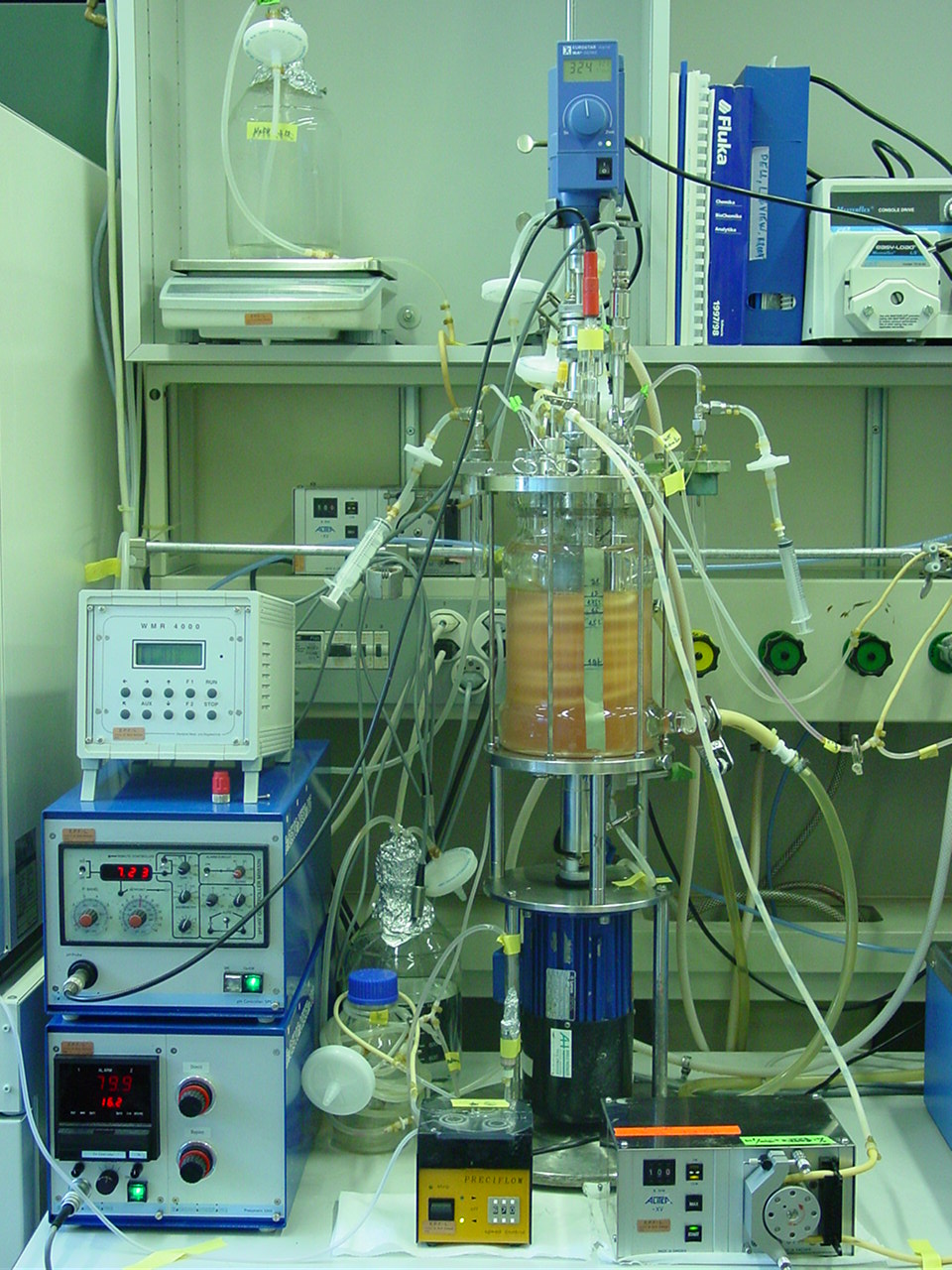 Mammalian cell culture in a bench-scale bioreactor.